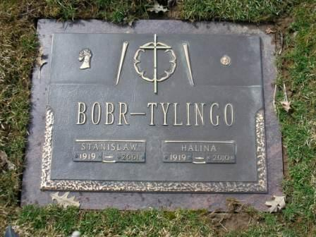 Grave Site of Bobr-Tylingo